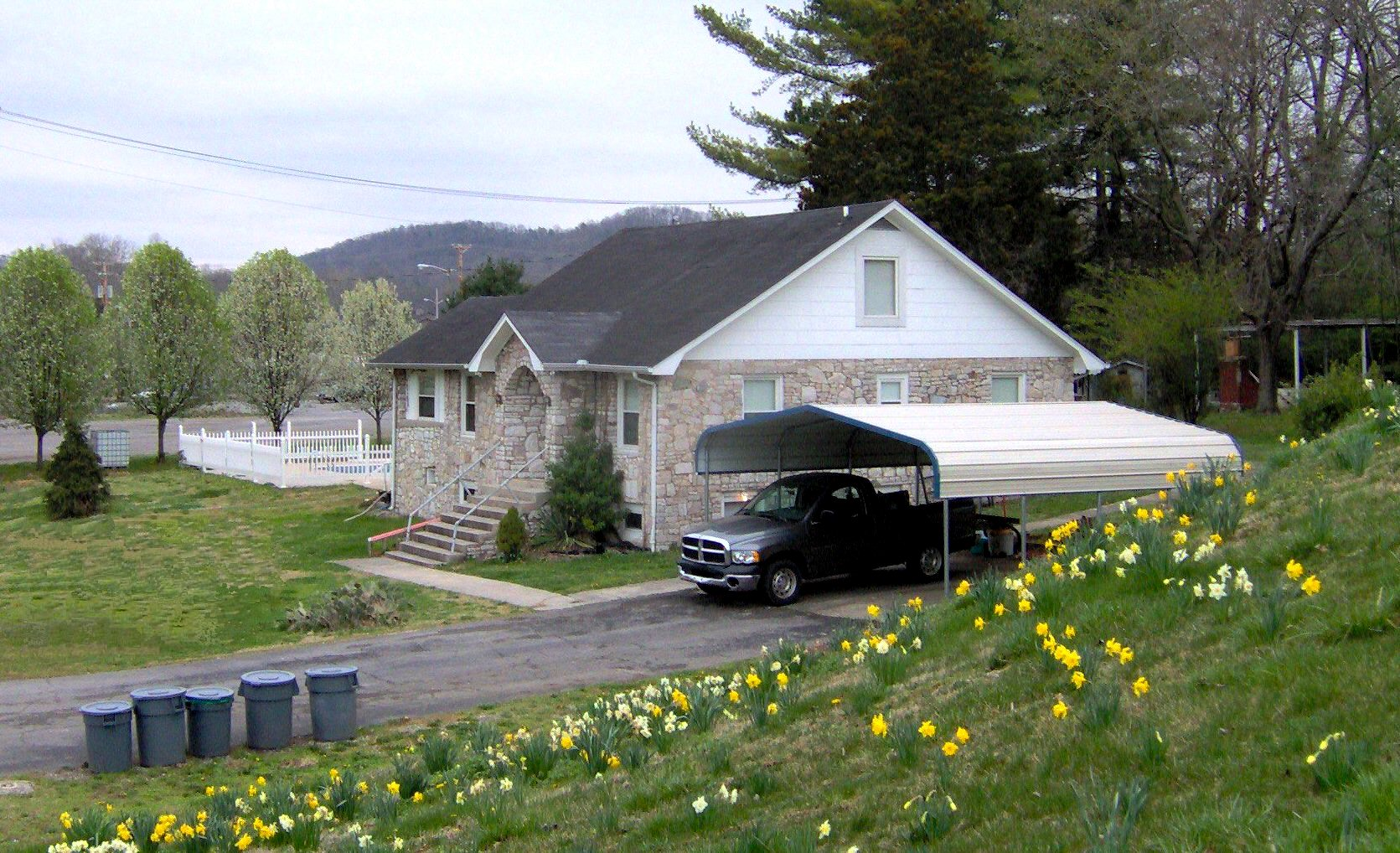 Luther Brannon House on Oak Ridge Turnpike in Oak Ridge, Tennessee, in the southeastern United States. Listed on the National Register of Historic Places.